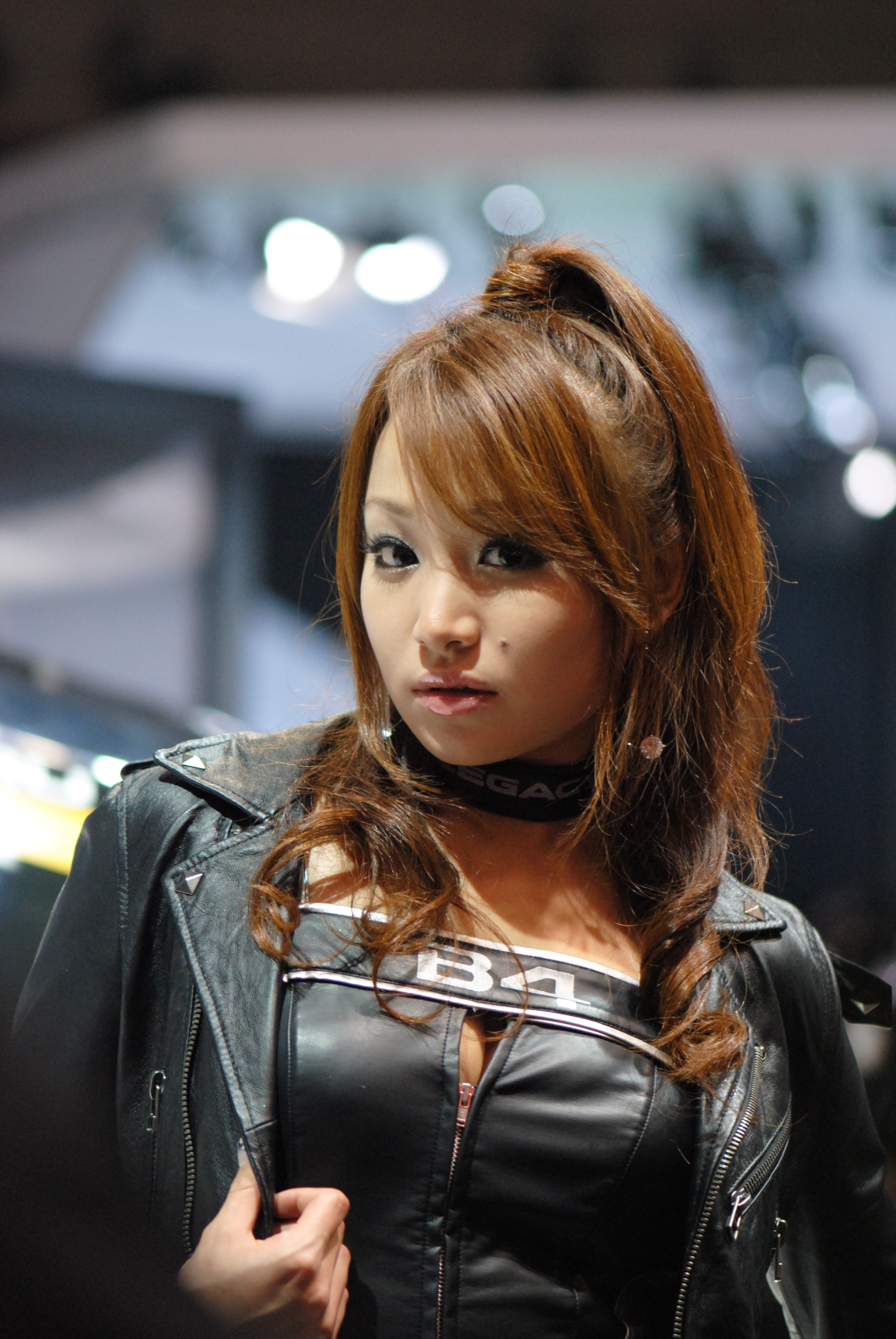 Tokyo Motor Show 2009